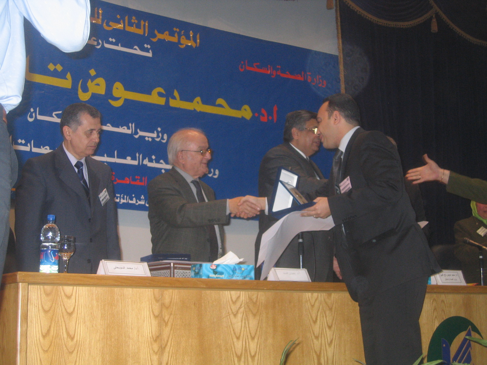 فريدي البياضي يستلم ميدالية التفوق من وزير الصحة freddy Elbaiady receiving medal of honor from the minister of health